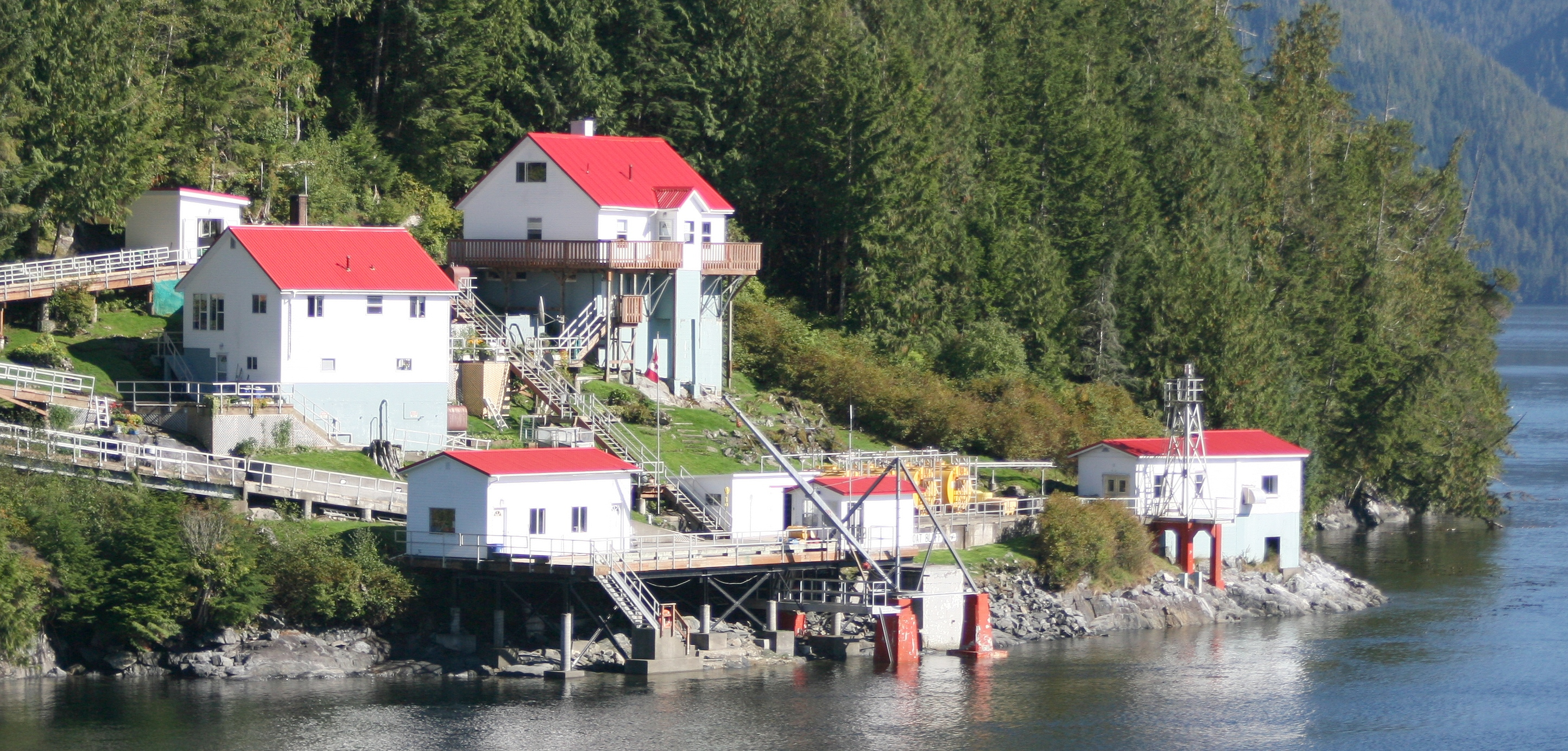 Boat Bluff Lighthouse as seen from the Inside Passage.